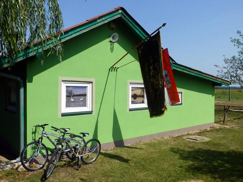 Prostorije društva